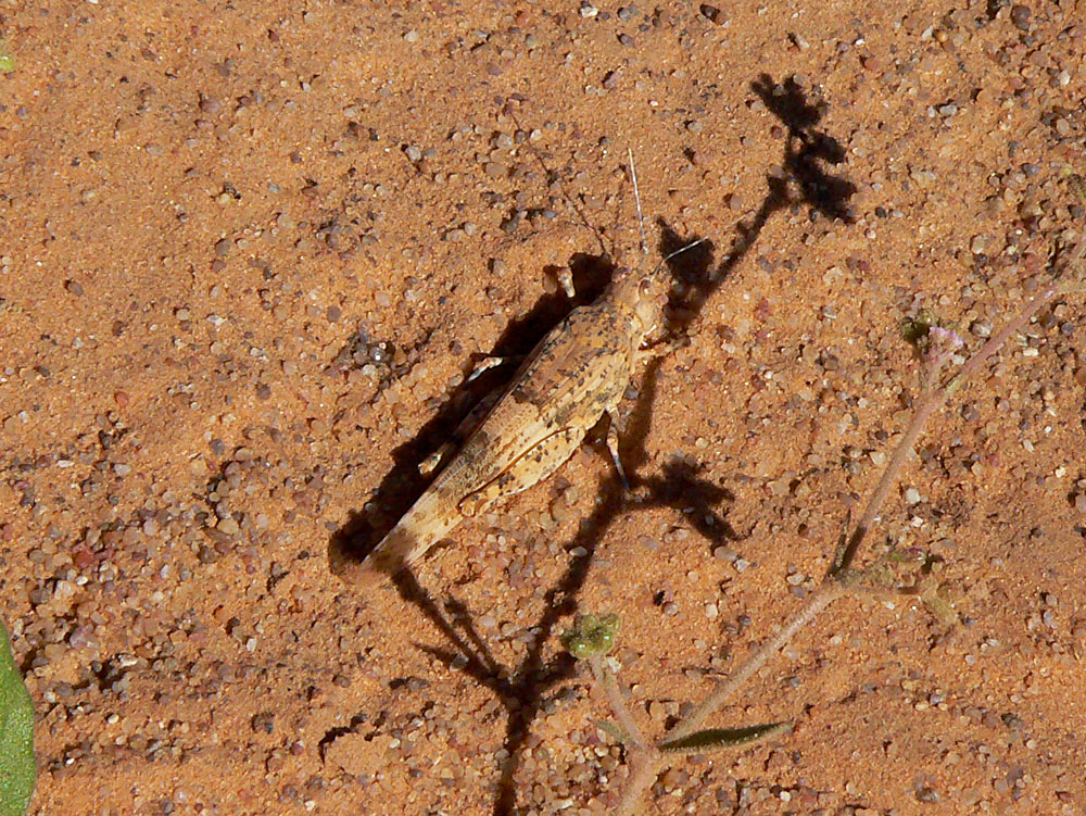 Sphingonotus savignyi in desert near Benichab, Mauritania.